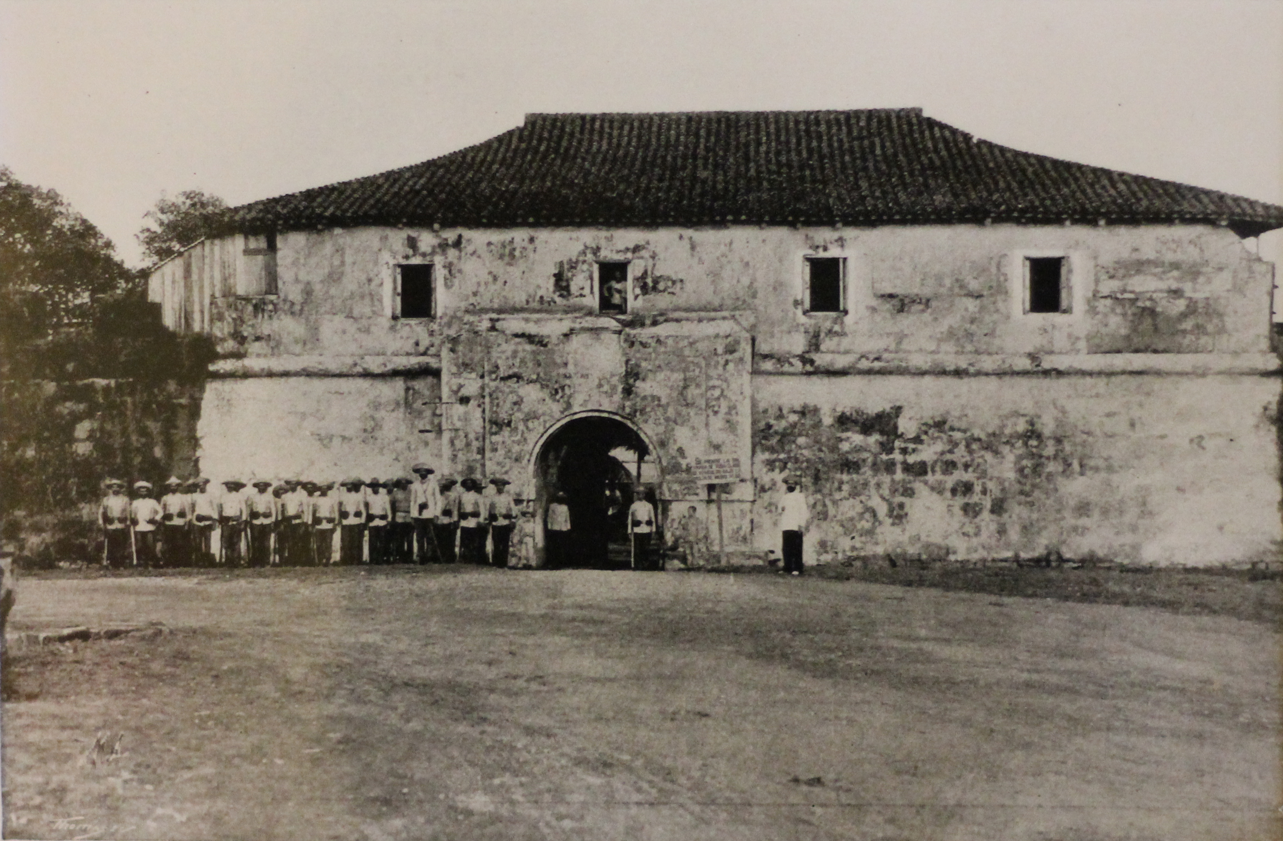 from the collection of Fr. Virgilio Saenz Mendoza